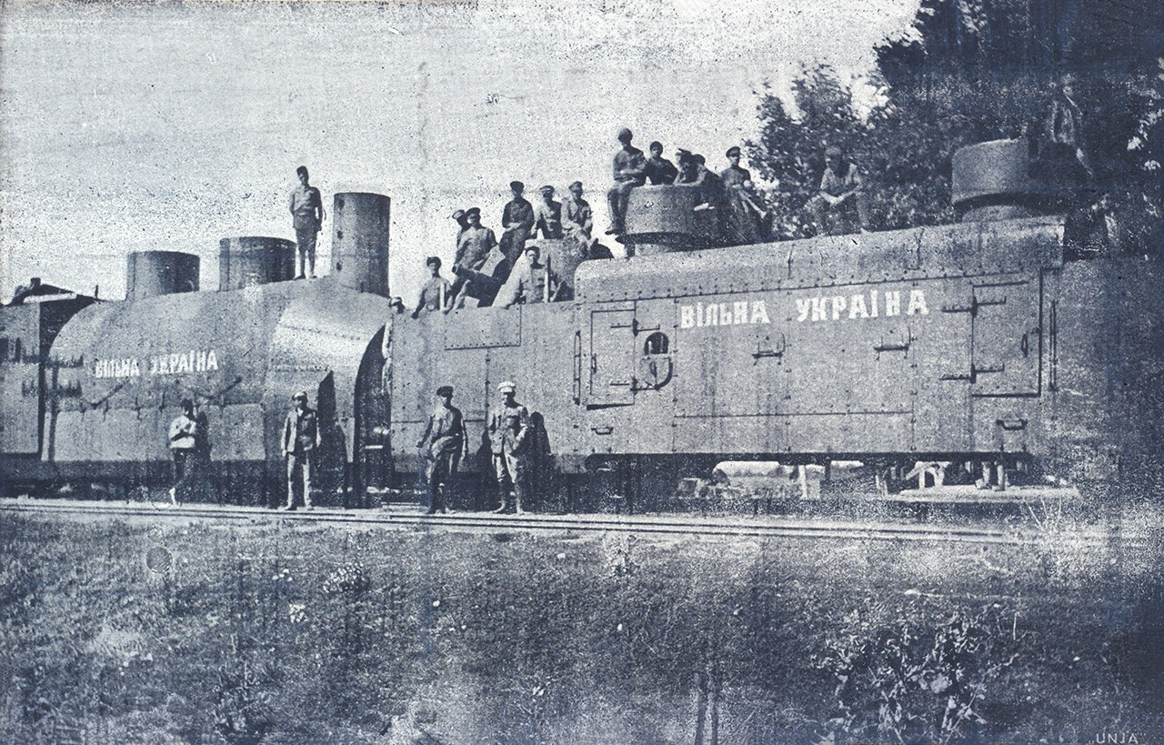 Postcard showing the armoured train "Vilna Ukraina" (Free Ukraine), operated by the Sich Riflemen of the Ukrainian Galician Army, 1919.